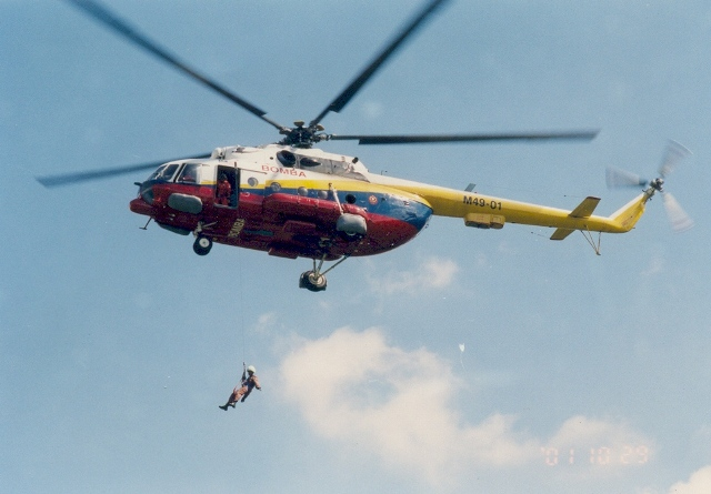 Rescue helicopter of the Malaysian Fire and Rescue Department